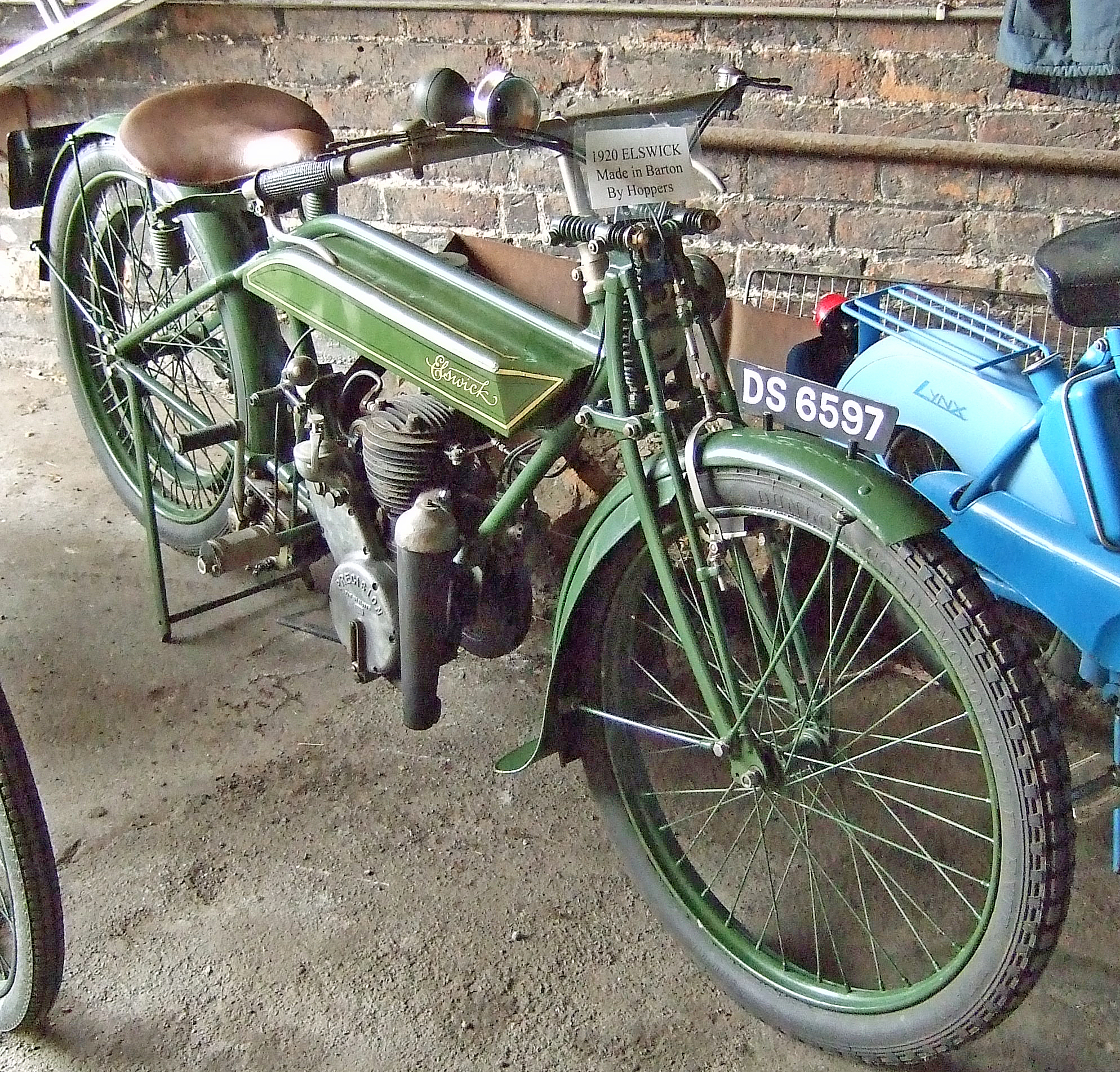 Elswick Hopper Motor Cycle of 1920 made in Barton-Upon-Humber.